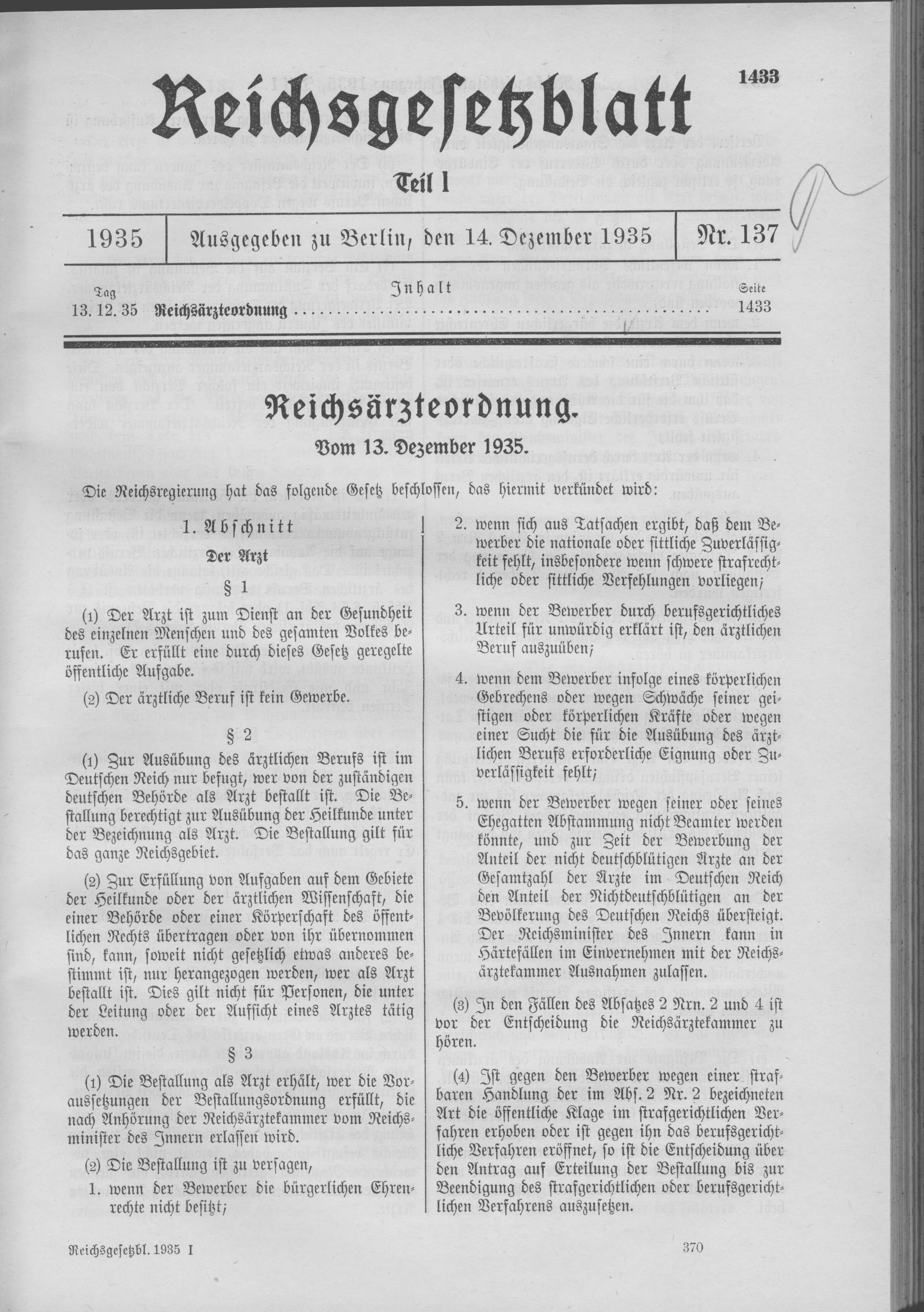 Scan from the Imperial Law Gazette of Germany, 1935, part 1